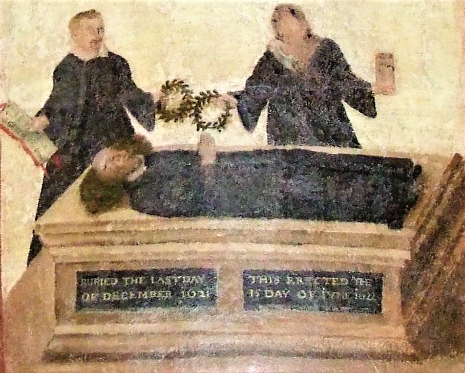 William Inglott's 1622 memorial at Norwich Cathedral. Two choristers mourn over the composer's body, one holding a parchment of his compositions, the other an hourglass.